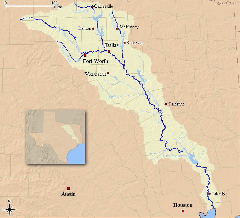 This is a map of the Trinity River watershed in Texas. I, Kuru, created from data originating at the USGS.